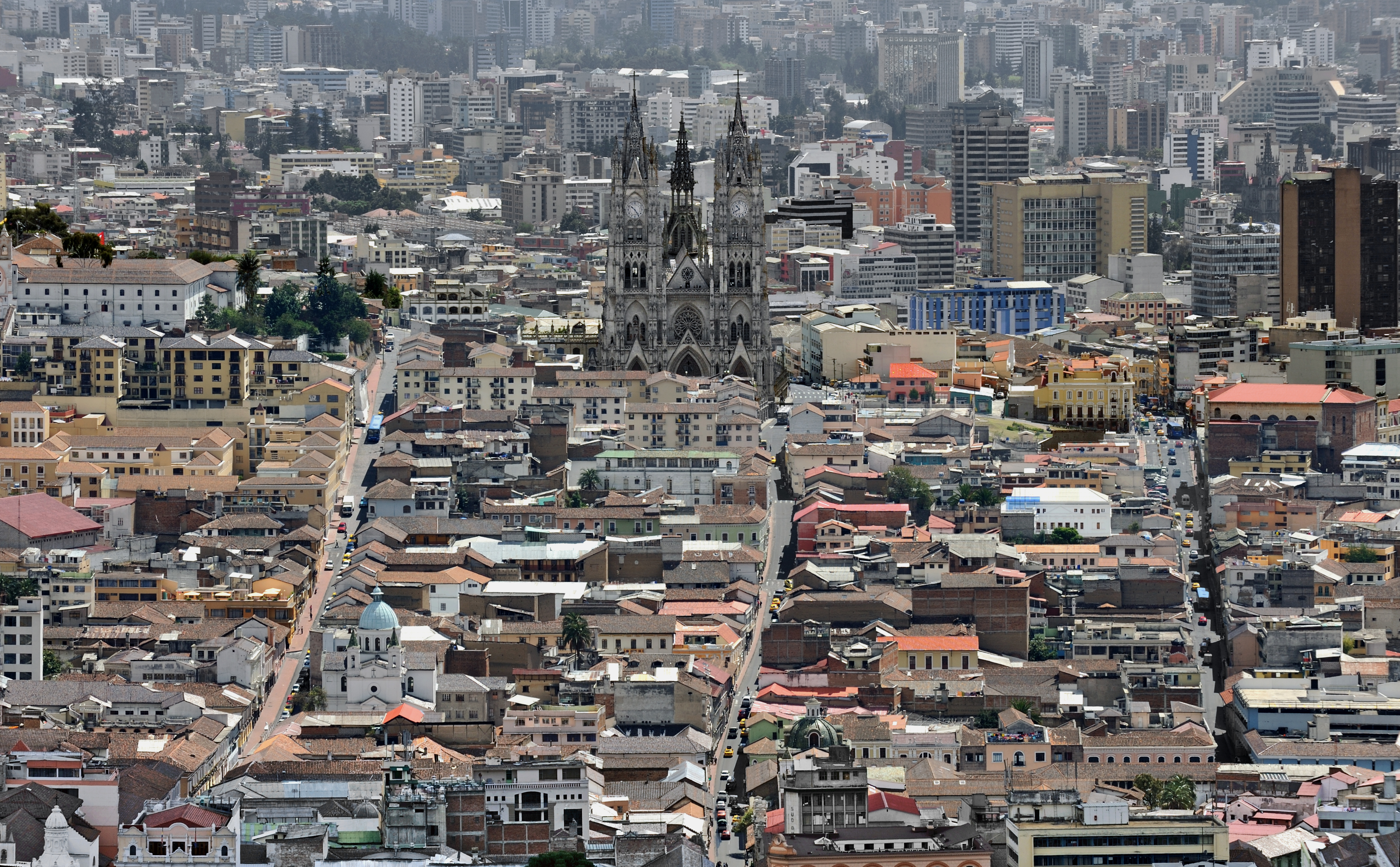 Quito, Ecuador: panoramic view of the historic centre of the city, as seen from El Panecillo (small piece of bread), with the basilica in the centre of the image.